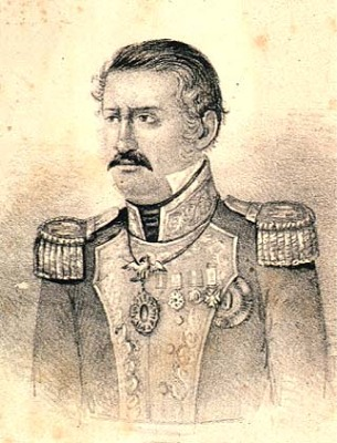 General Gabriel Valencia, B&W lithograph